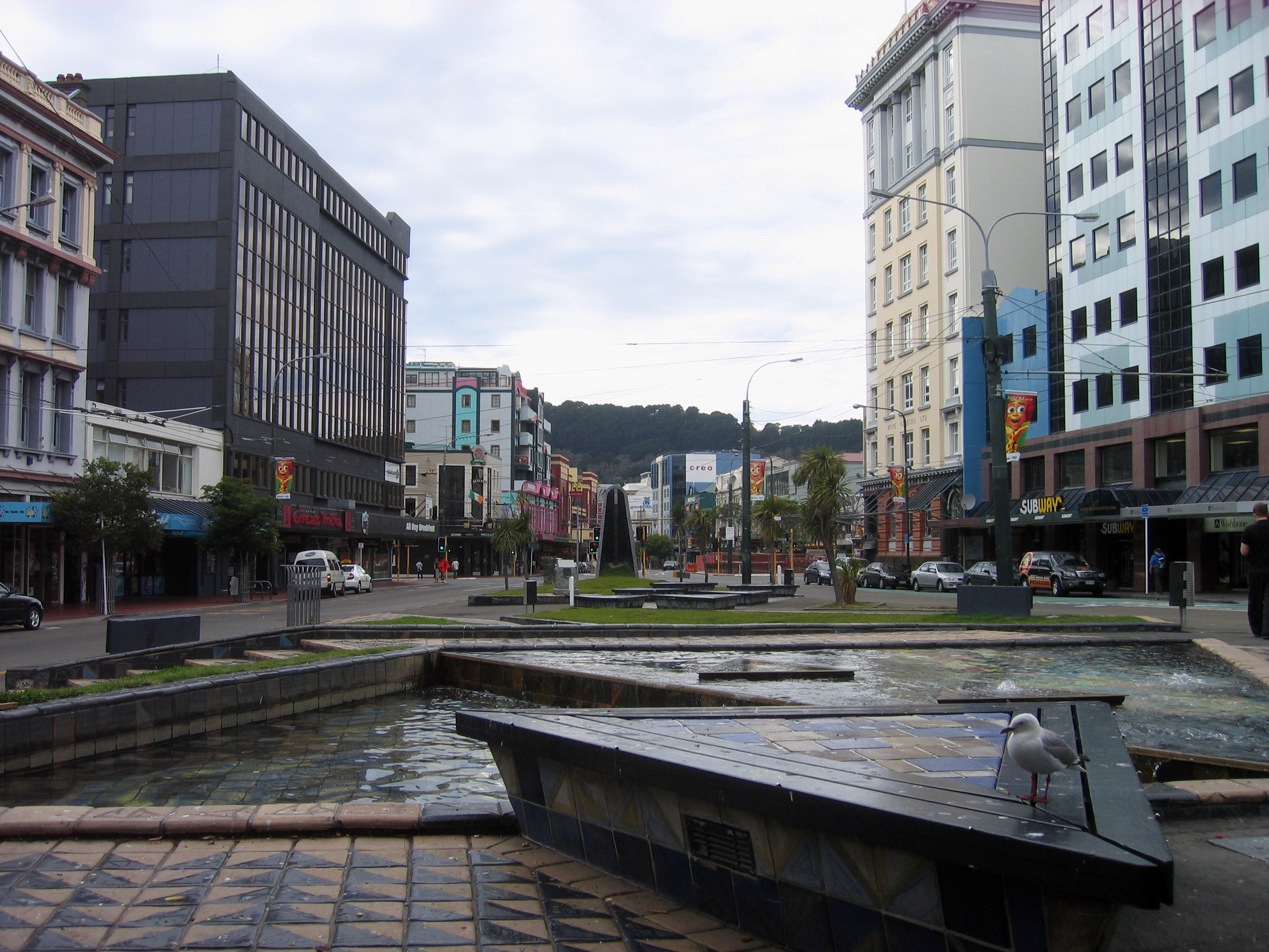 Wellington downtown